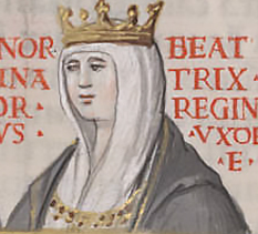 Beatrice of Portugal, queen of Castile